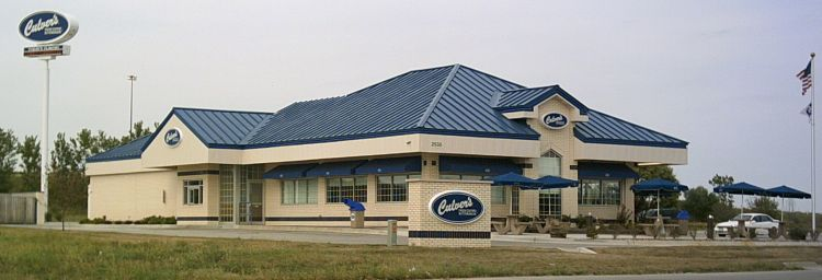 Exterior of the Culver's restaurant in Altoona, Iowa